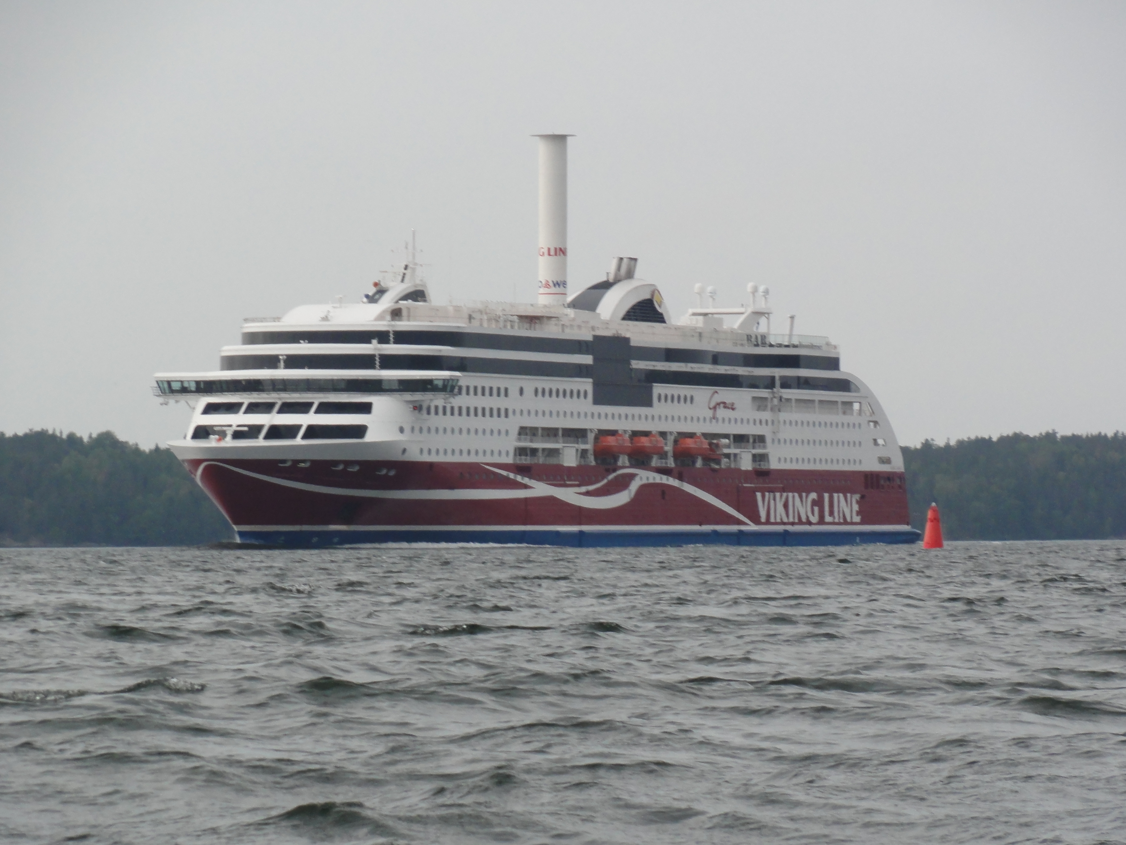 M/S Viking Grace at Lunsen, Furusundsleden in Stocholm Archipelago 2018. With the rotor, as it was converted to a rotor ship for that season.